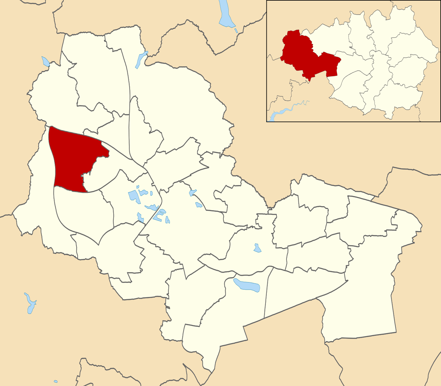 Map showing the location of Pemberton ward within Wigan Metropolitan Borough Council